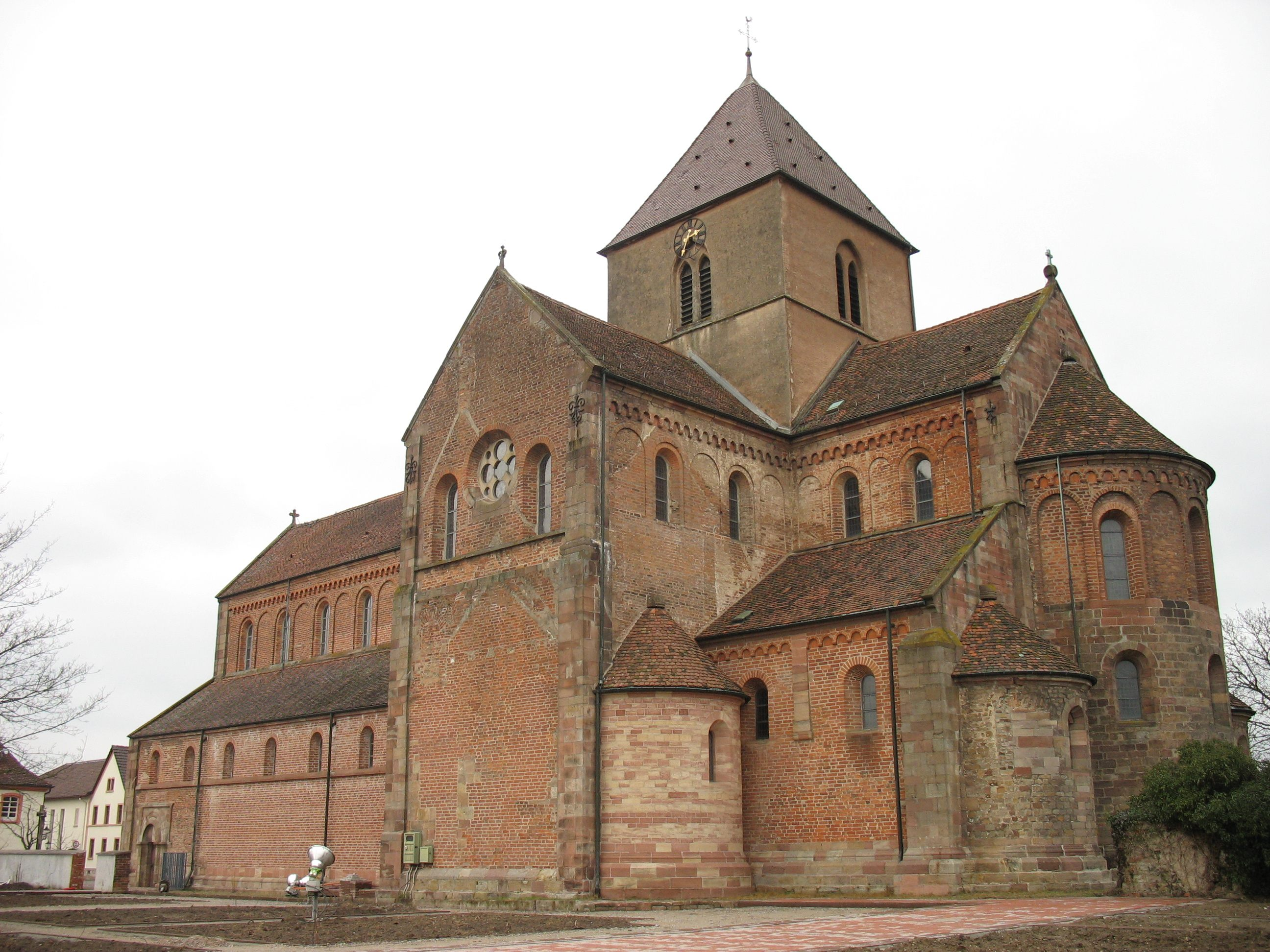 This image has been taken by Wikipedia-ce on january 22 of 2006 and it is public domain. It shows the romanic monastery Münster Schwarzach in Schwarzach, Germany, viewed from south-east. Used by